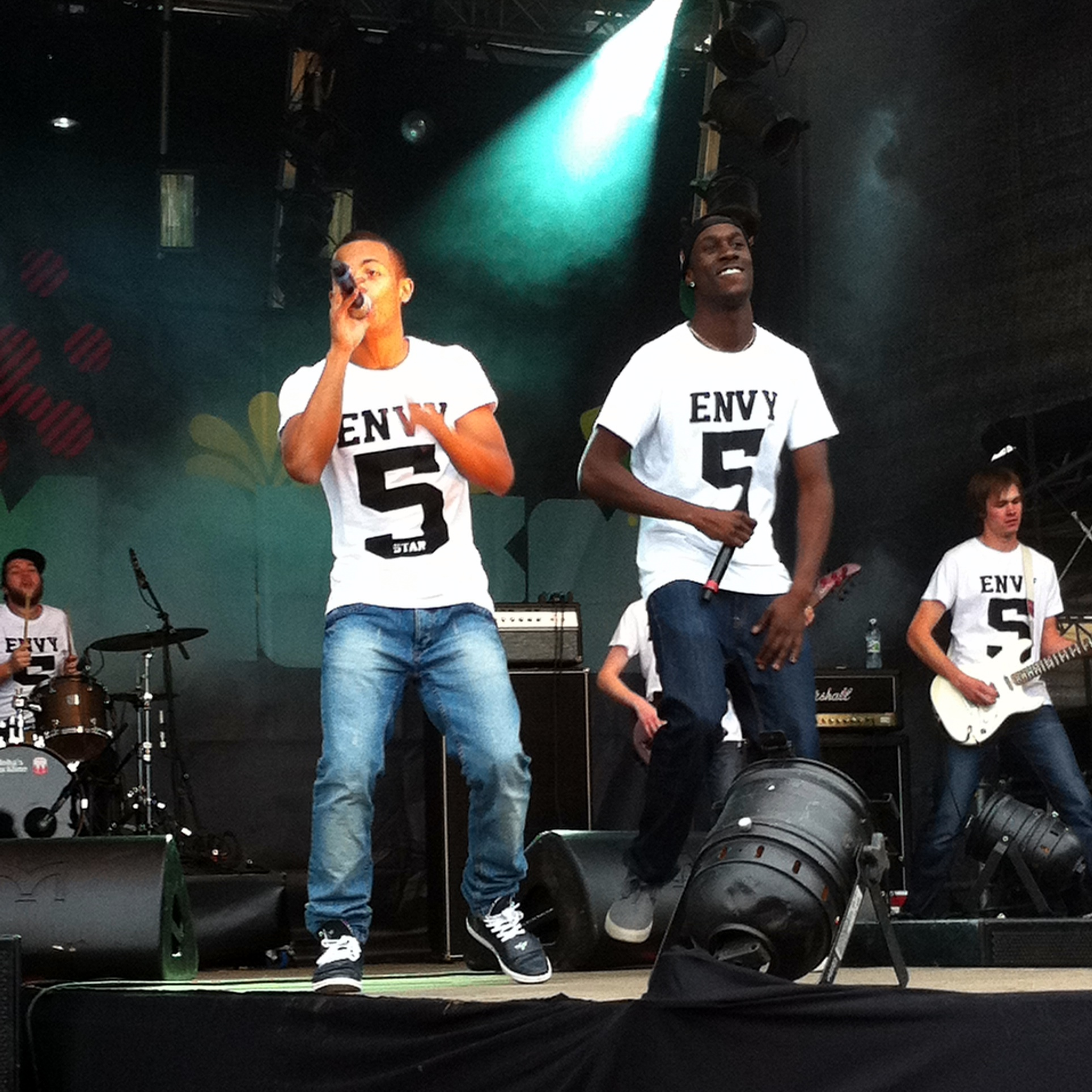 Norwegian hiphop-duo Envy